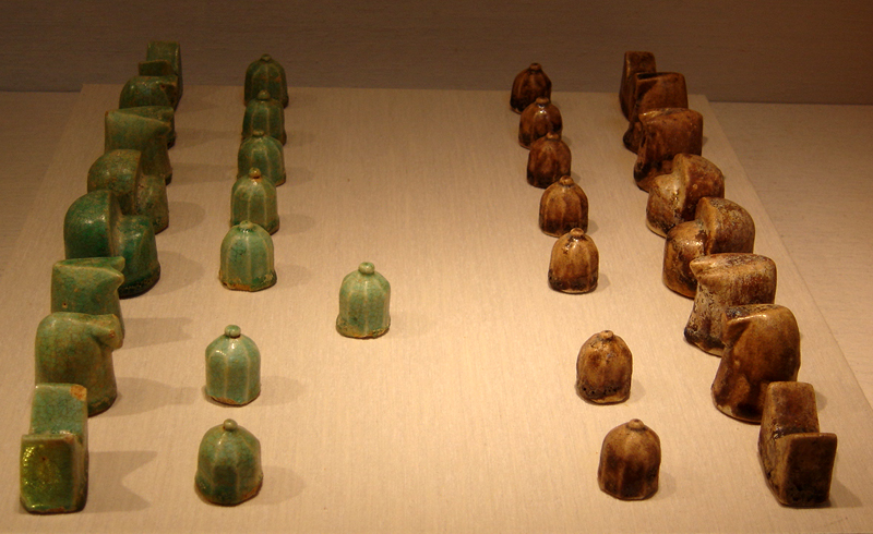 Chess Set (Shatranj in Iranian), glazed fritware, 12th century. New York Metropolitan Museum of Art.